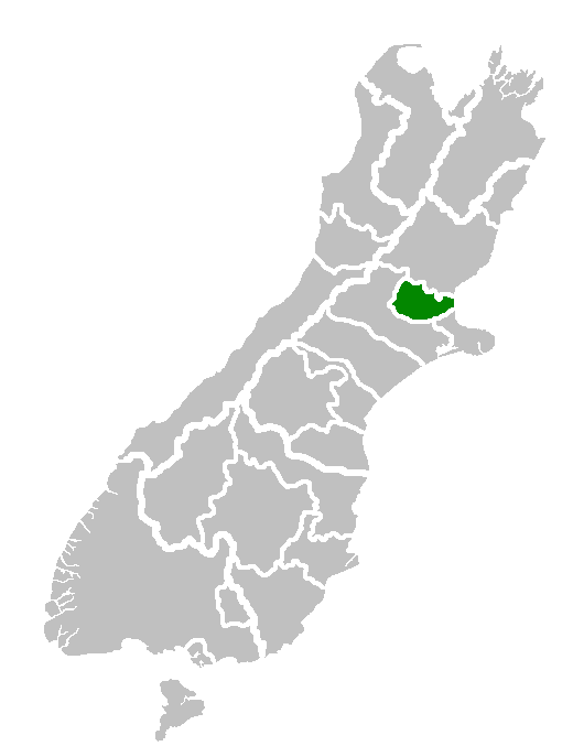 Location of Waimakariri District.